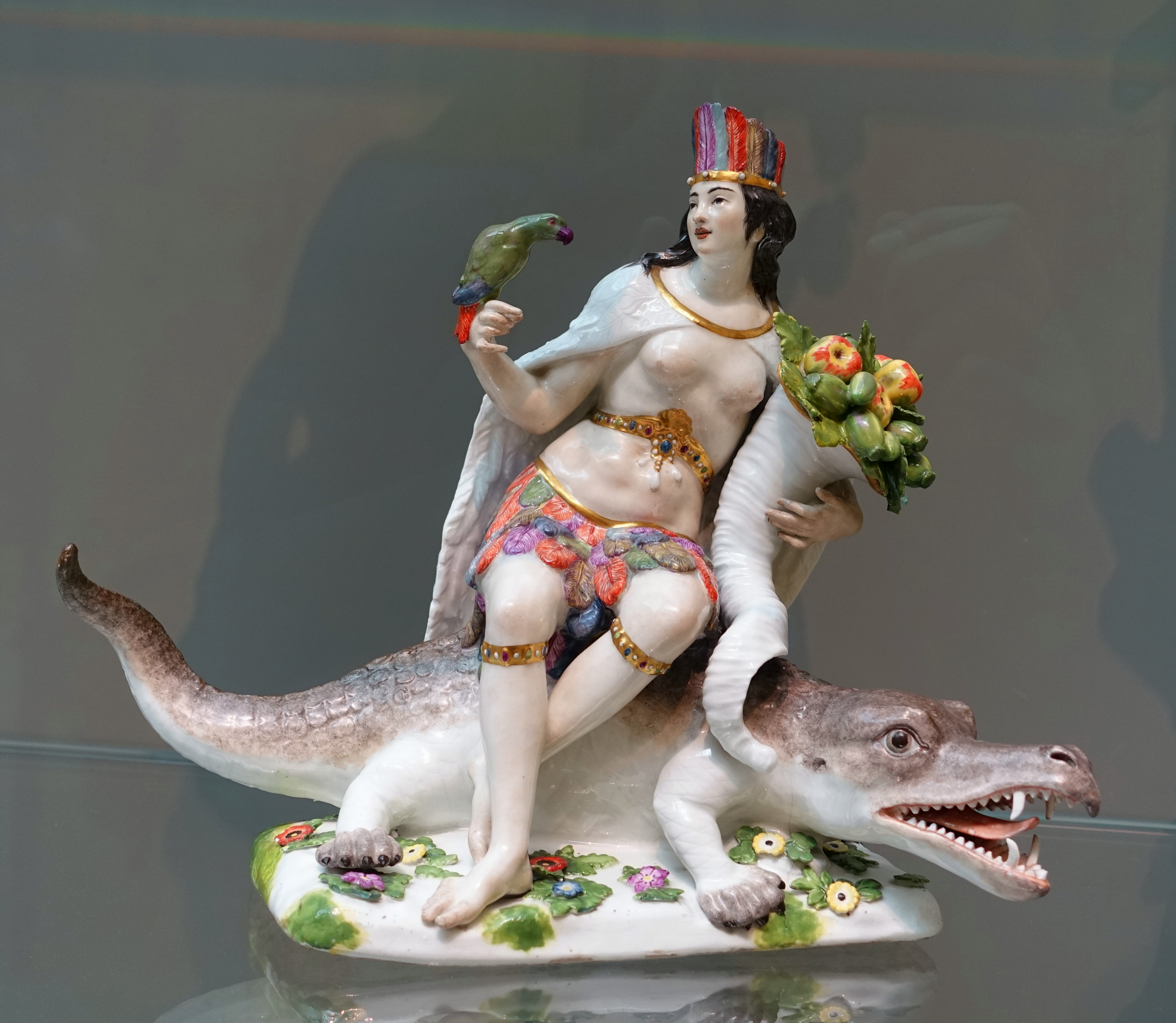 Sculpture